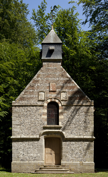 Château de Miromesnil; Tourville-sur-Arques; Normandie, Seine-Maritime, France; ref: PM_062715_F_Miromesnil; ; La chapelle, dédiée à saint Antoine l'Ermite; Photographer: Paul M.R. Maeyaert; © Paul M.R. Maeyaert; ; Cultural heritage; Europe/France/Miromesnil (Château de-); LoCloud selectie